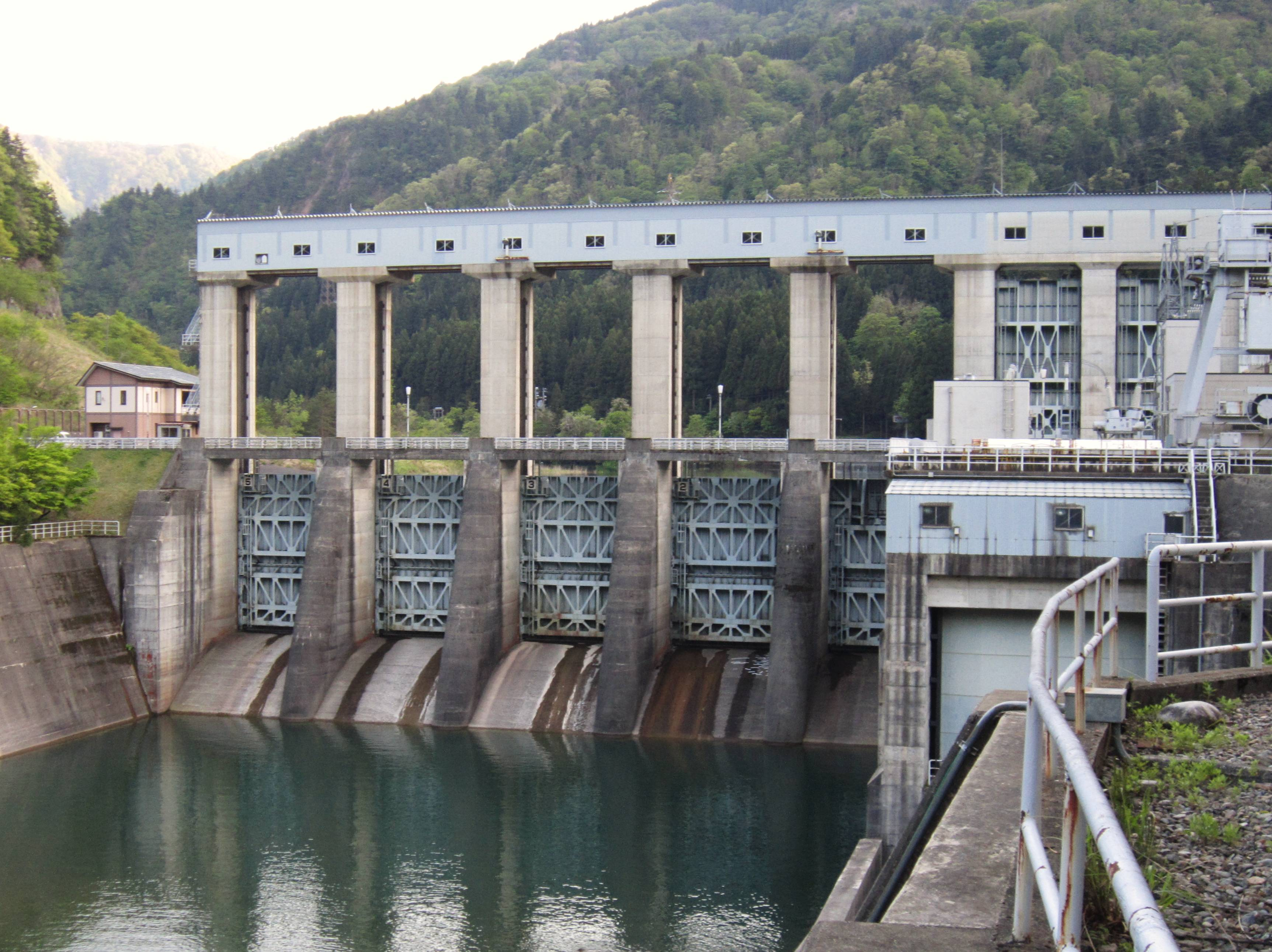 Akao Dam.